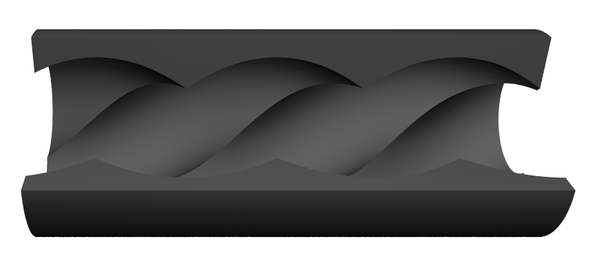 Rendered image of the double-helix rubber stator in a progressive cavity pump.